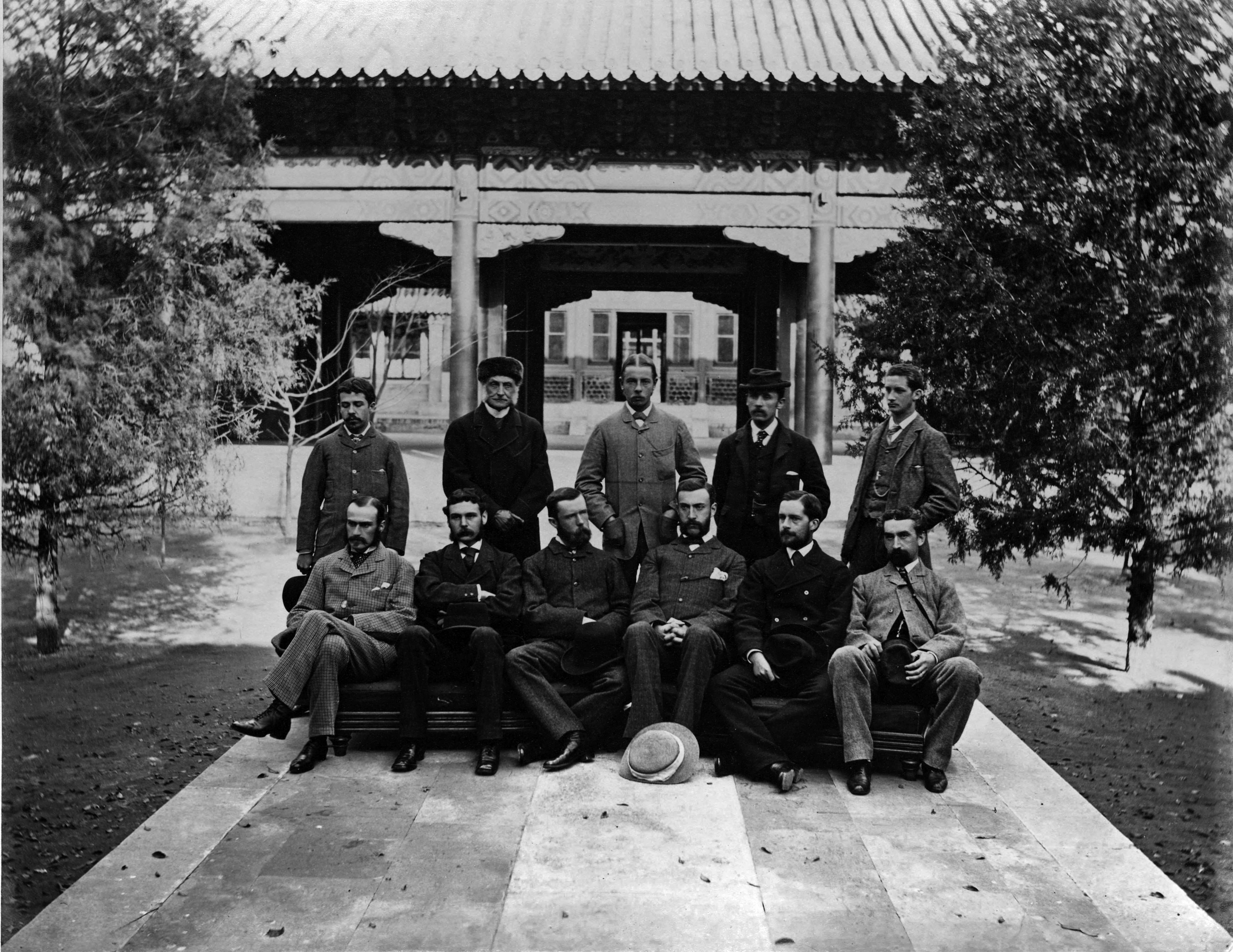 Photograph in Album of photographs of Peking and its environs.